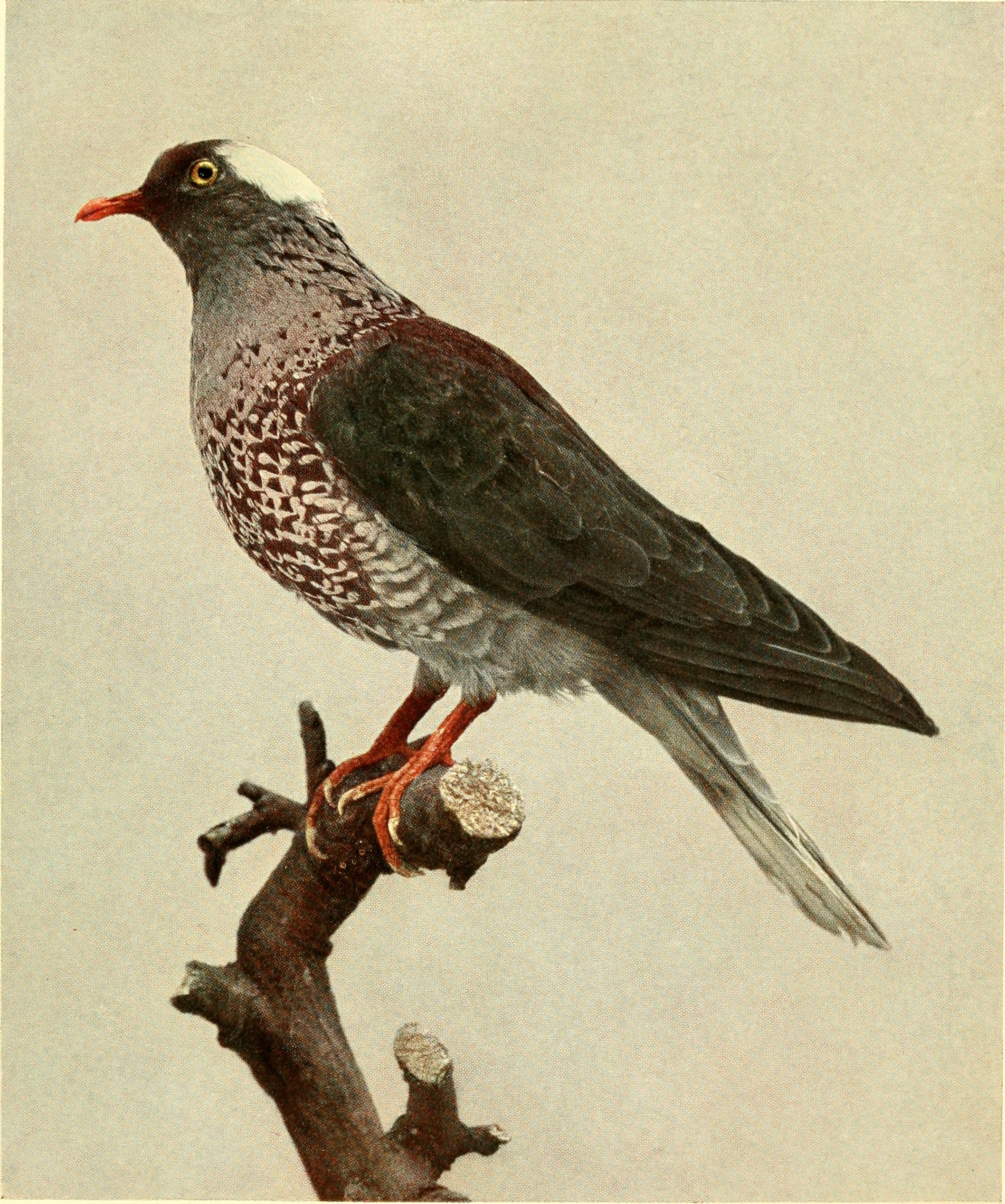 Title: Annalen des Naturhistorischen Museums in Wien Year: 1912 (1910s) Authors: Naturhistorisches Museum (Austria) Subjects: Naturhistorisches Museum (Austria); Natural history Publisher: Wien, Naturhistorisches Museum [etc. ] Text Appearing Before Image: Dr. Moriz Sassi: Zur Ornis Centralairikas. Tafel V. Text Appearing After Image: Columba albinucha, Sa Annalen des k. k. naturhistorischen Hofmuseums, Band XXVI, Heft 3/4, 1912. Vierfarbenätzung von A. Krampolek, Wien, IV. Druck von Jg. Unger, Wien, IV.